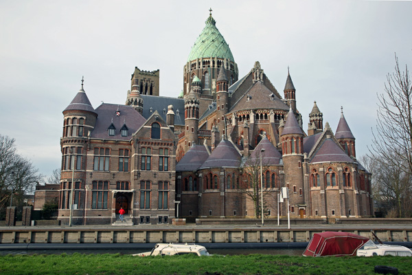 Cathedral Basilica St. Bavo, Haarlem, Netherlands. Design by Jos Cuypers. The cathedral is build in honour of Saint Bavo, the protector of Haarlem. Building the cathedral started in 1895, the building was finished in 1930. The cathedral is where the bishop lives and is also used as church.